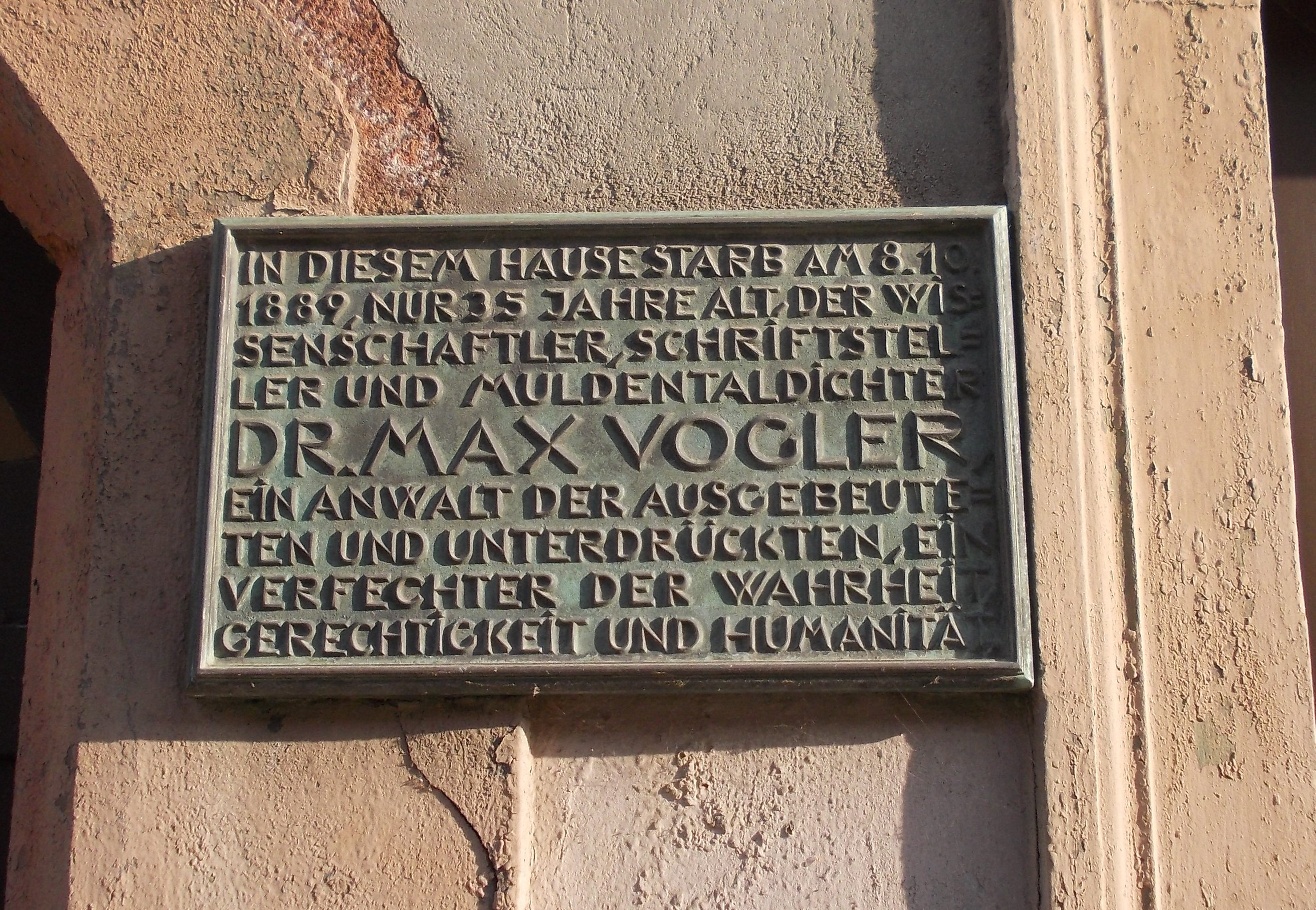 The house where the poet Max Vogler died, in Lunzenau (Mittelsachsen district, Saxony)